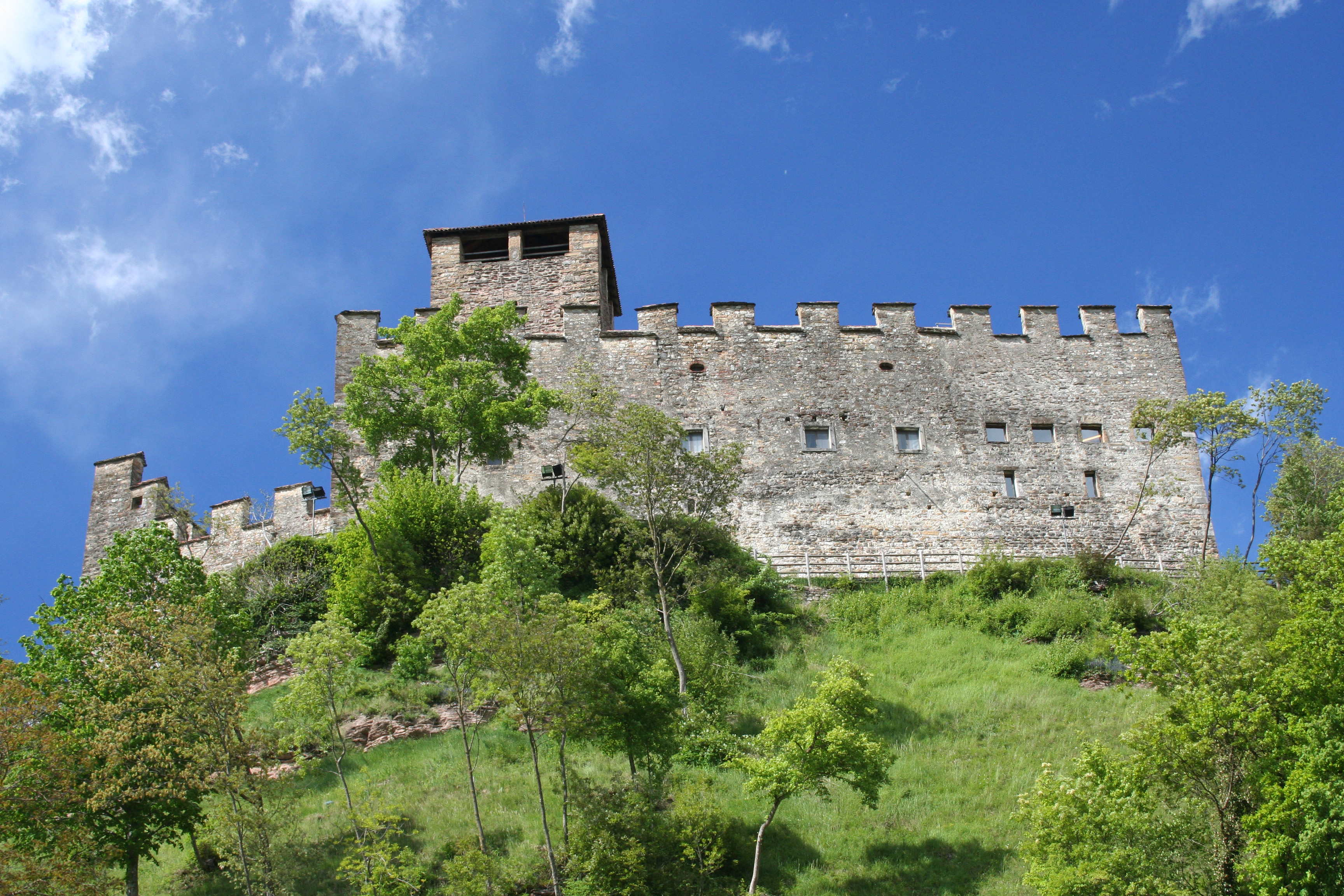 Castle of Zumelle, Belluno, Veneto, Italy.